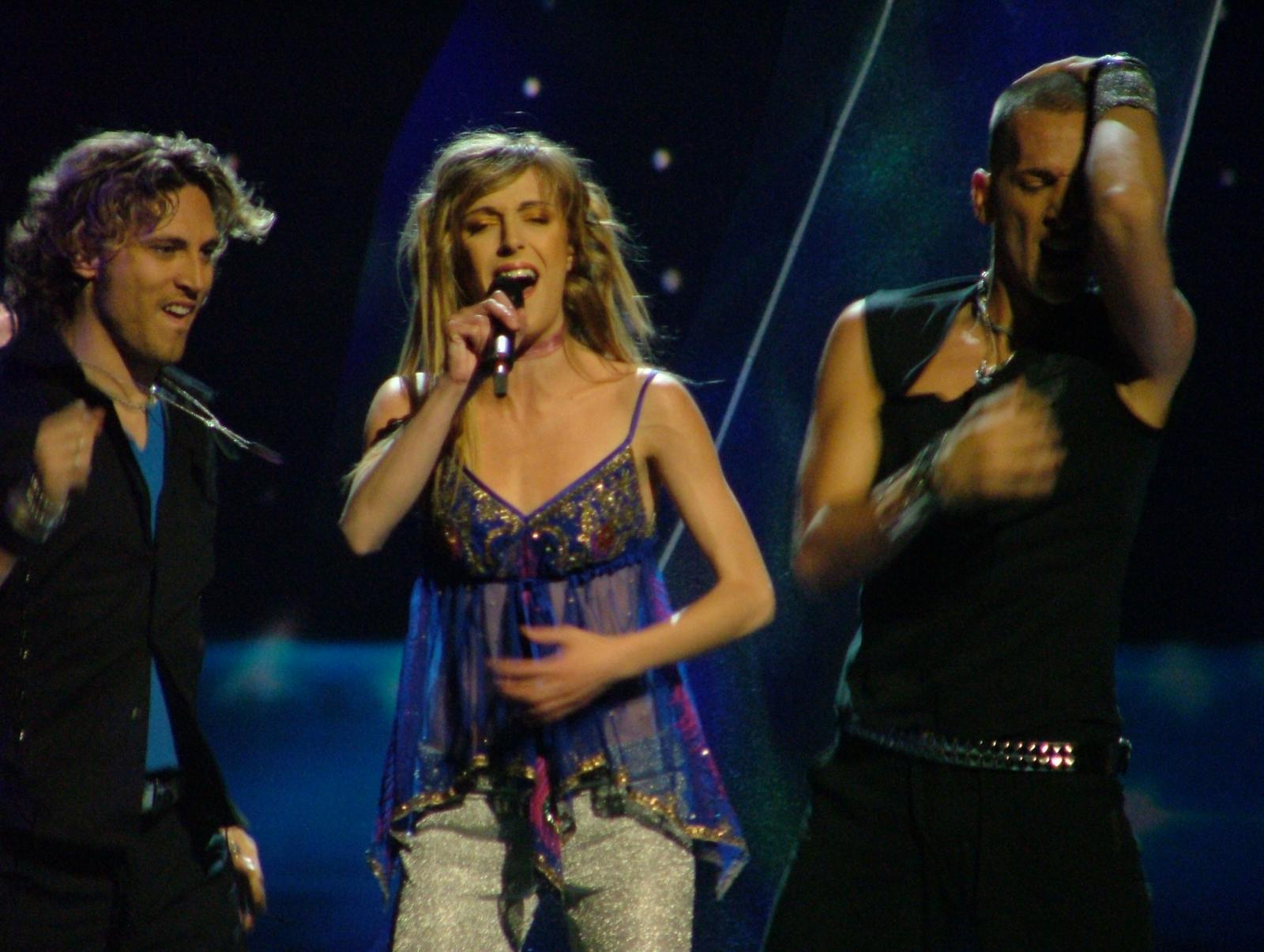 Marta Roure performing "Jugarem a estimar-nos" for Andorra in the 2004 Eurovision Song Contest in Istanbul, Turkey.